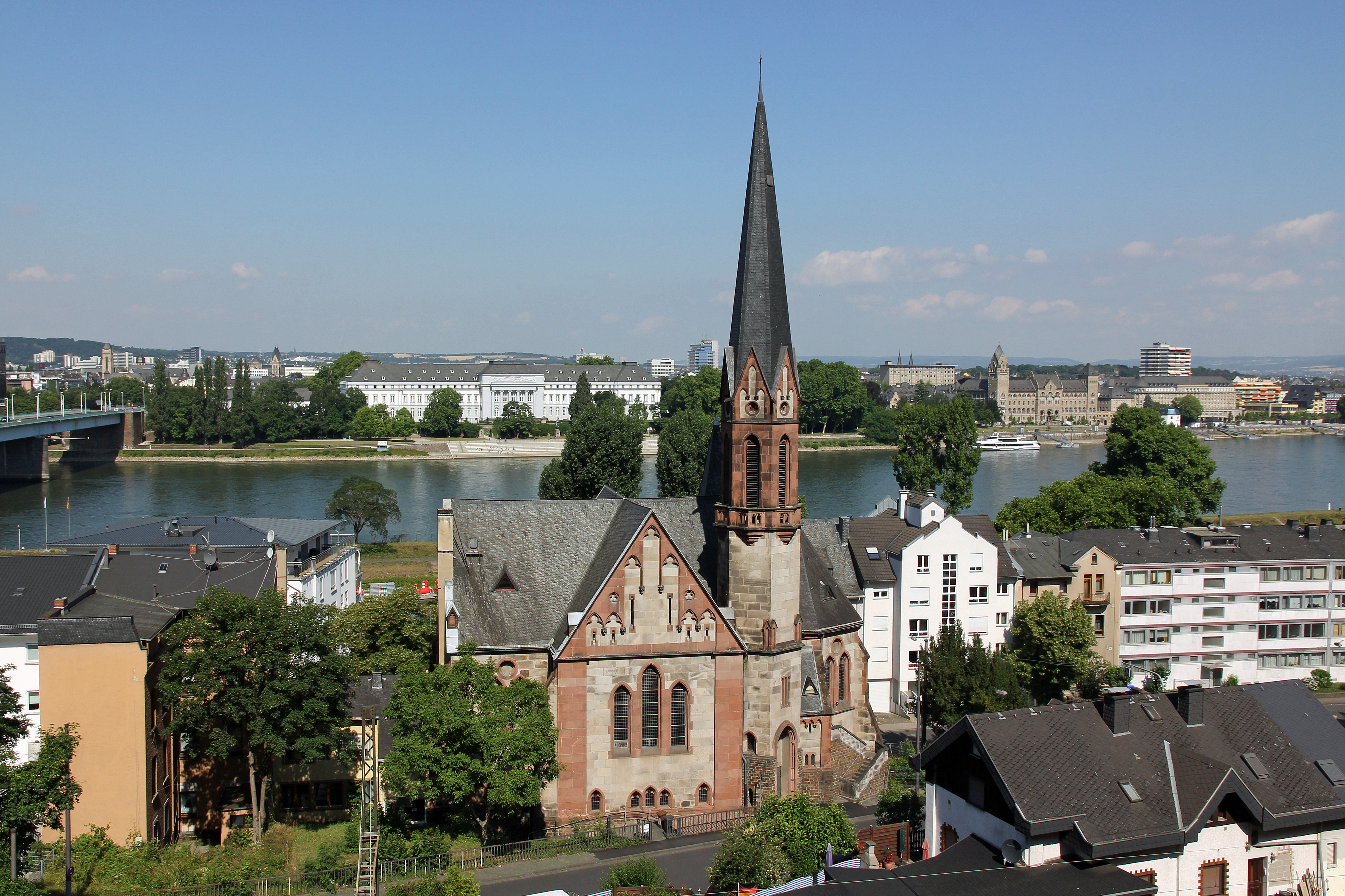 Evangelical Church in Koblenz-Pfaffendorf